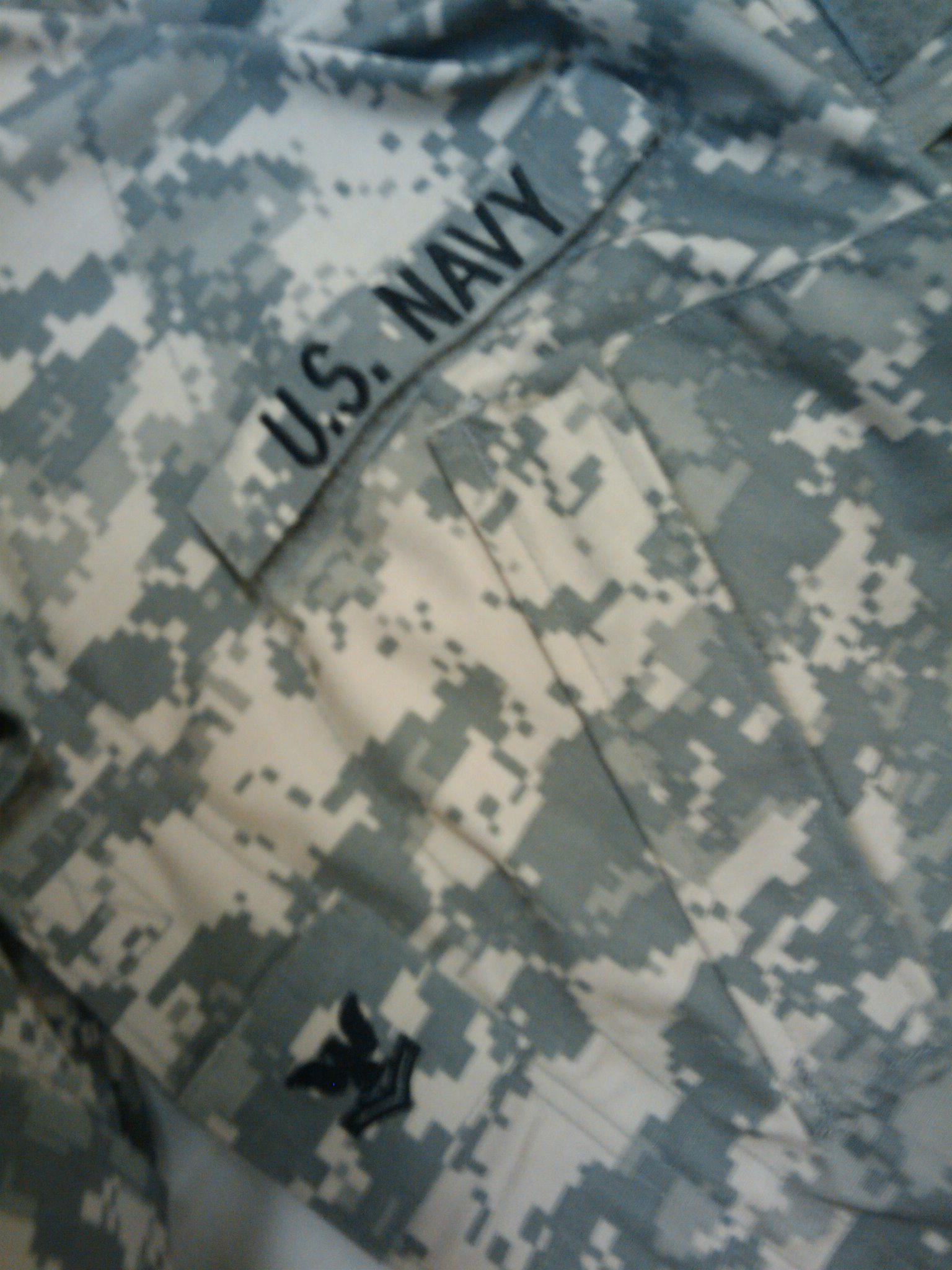 US NAVY markings and rank on the Army ACU uniform. This uniform belongs to a member serving in Iraq attached to an Army Military Police Battalion while conducting Detainee OPS.